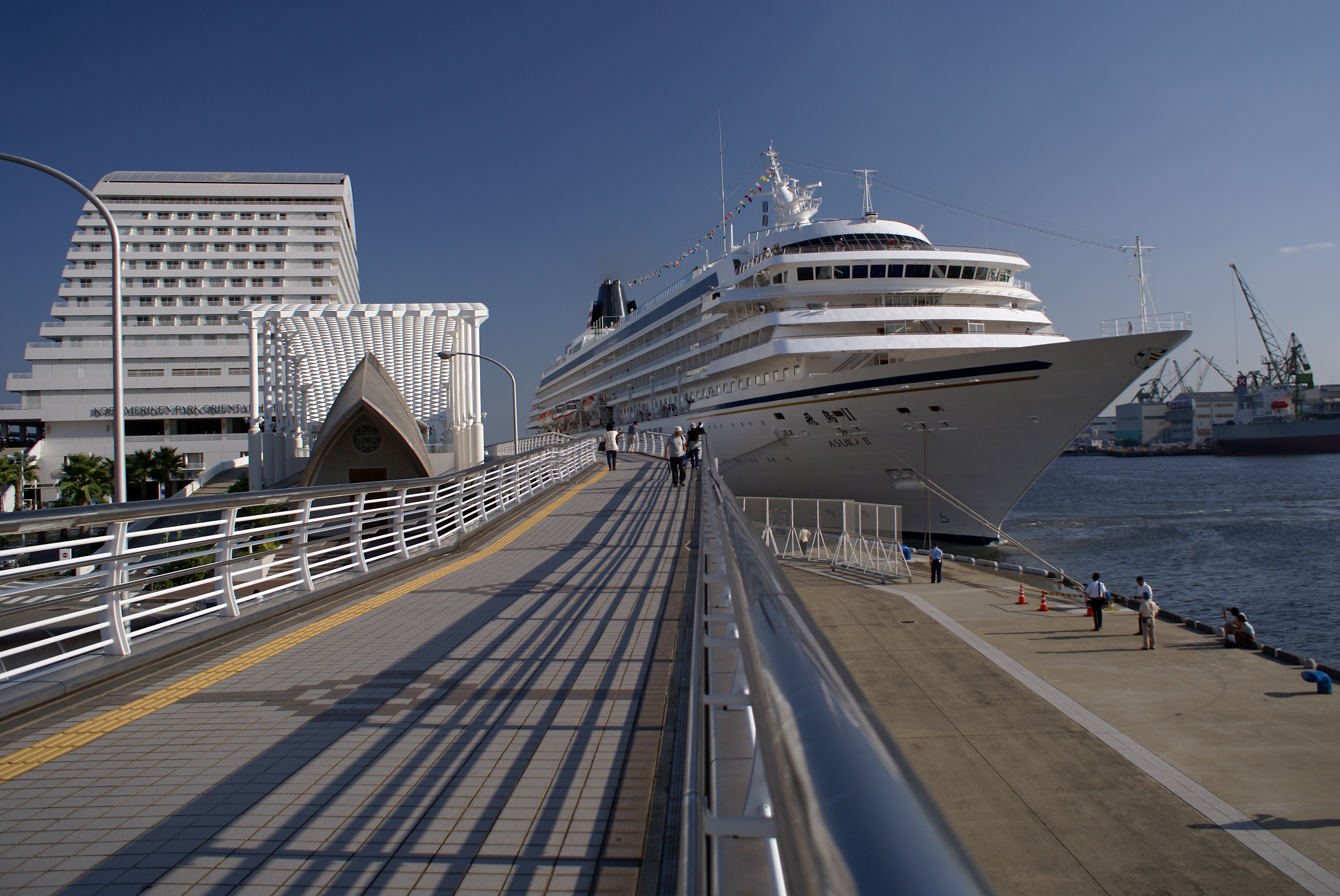 "Asuka II" who anchors at the wharf "Nakatottei" of the Kobe harbor (Kobe, Hyogo prefecture, Japan)